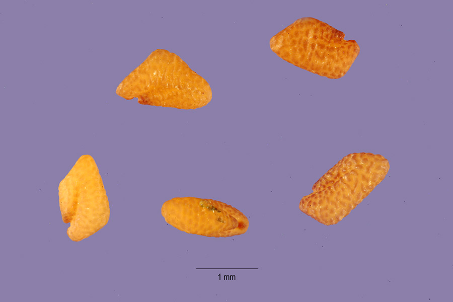 Photograph of Medicago monspeliaca seeds (originally identified as Trigonella monspeliaca).